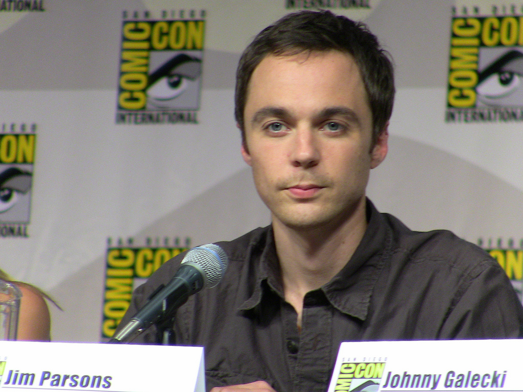 Comic-Con 2009 - The Big Bang Theory Panel - San Diego, Calif. - July 24, 2009